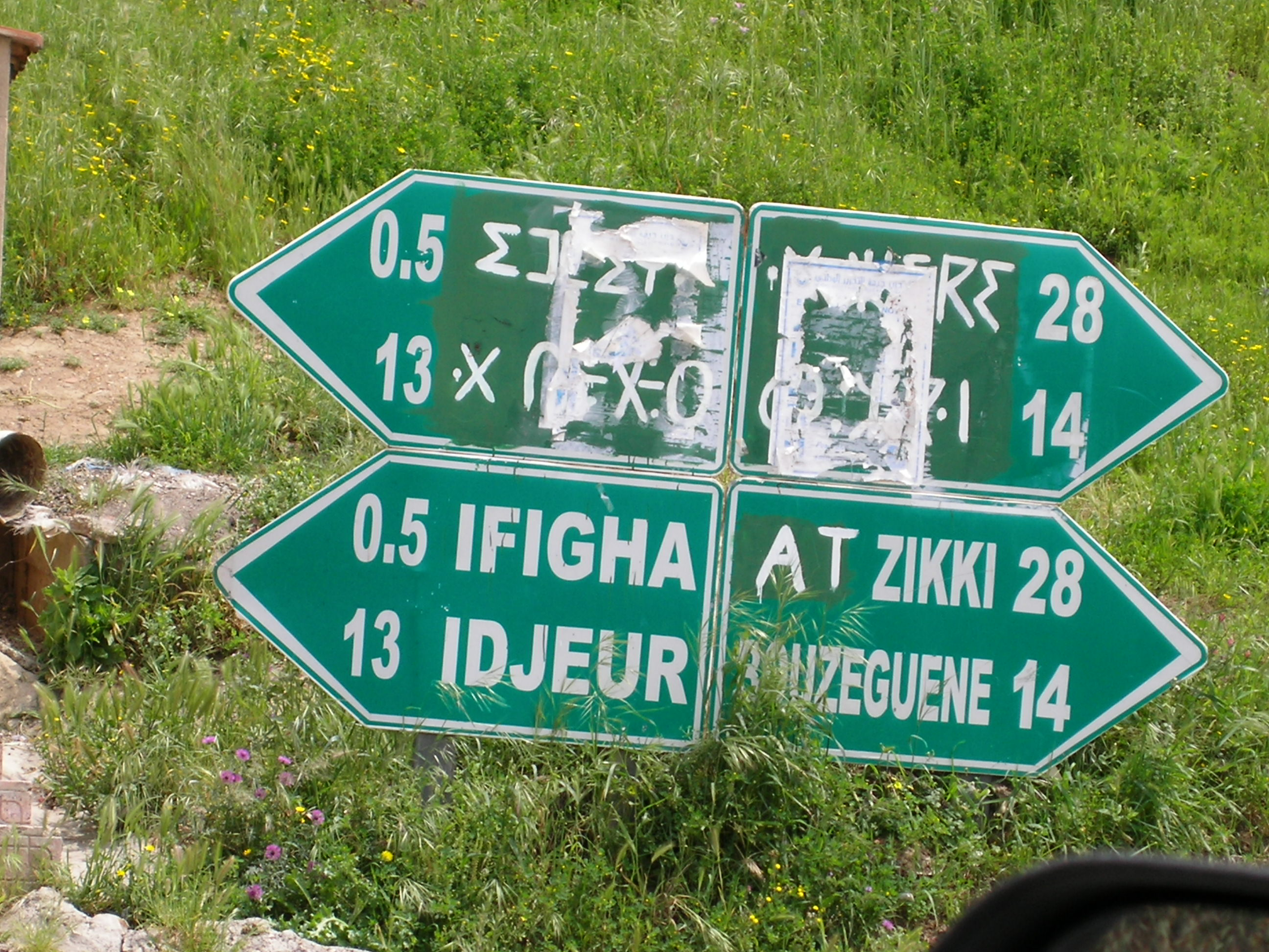 Road sign with the Arabic alphabet names painted over with Tifinagh alphabet names, which were themselves later vandalized